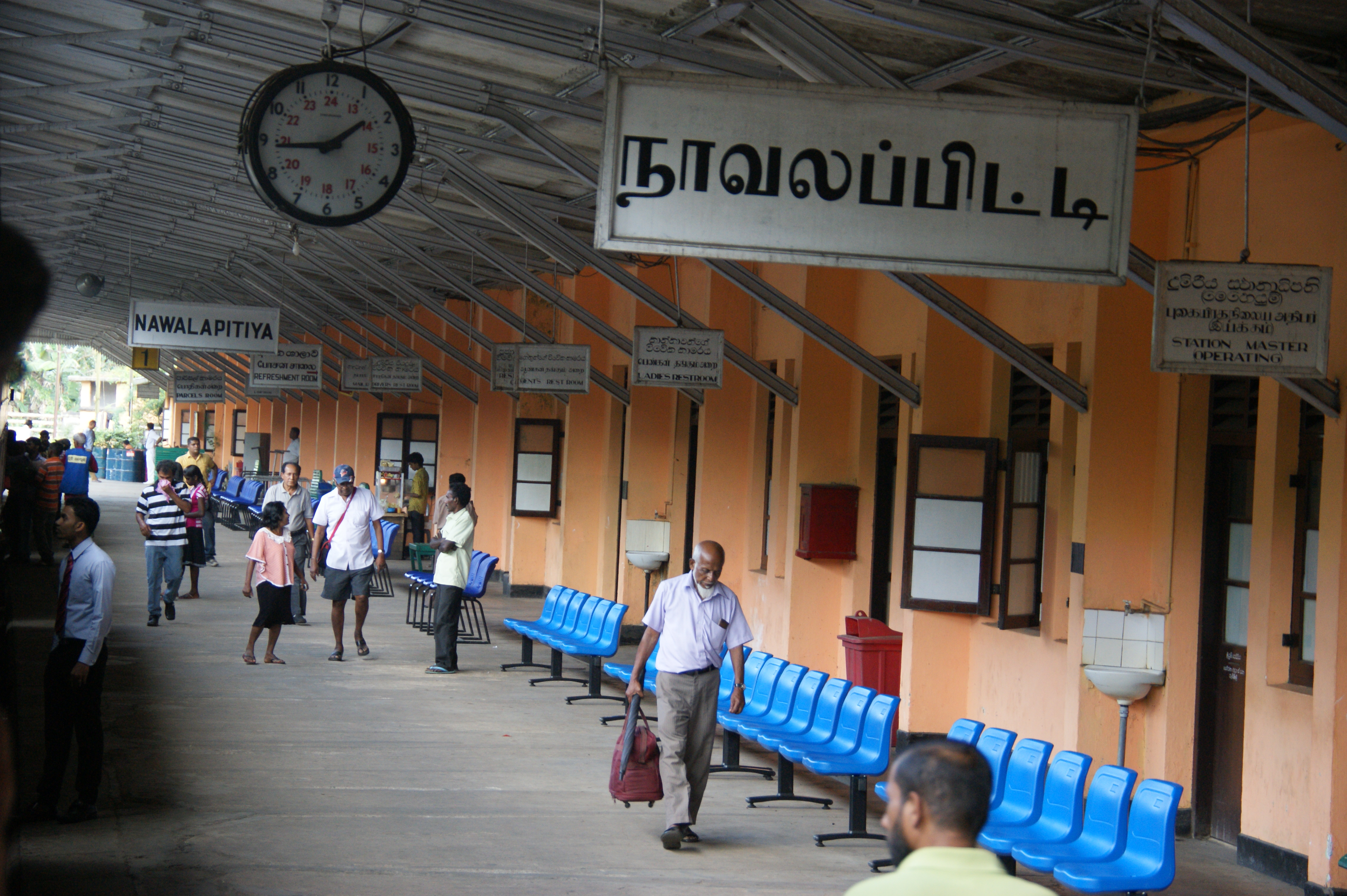 Platform at Nawalapitiya railway station